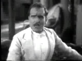 Al Ferguson as Albert Werper in Tarzan the Tiger (1929).